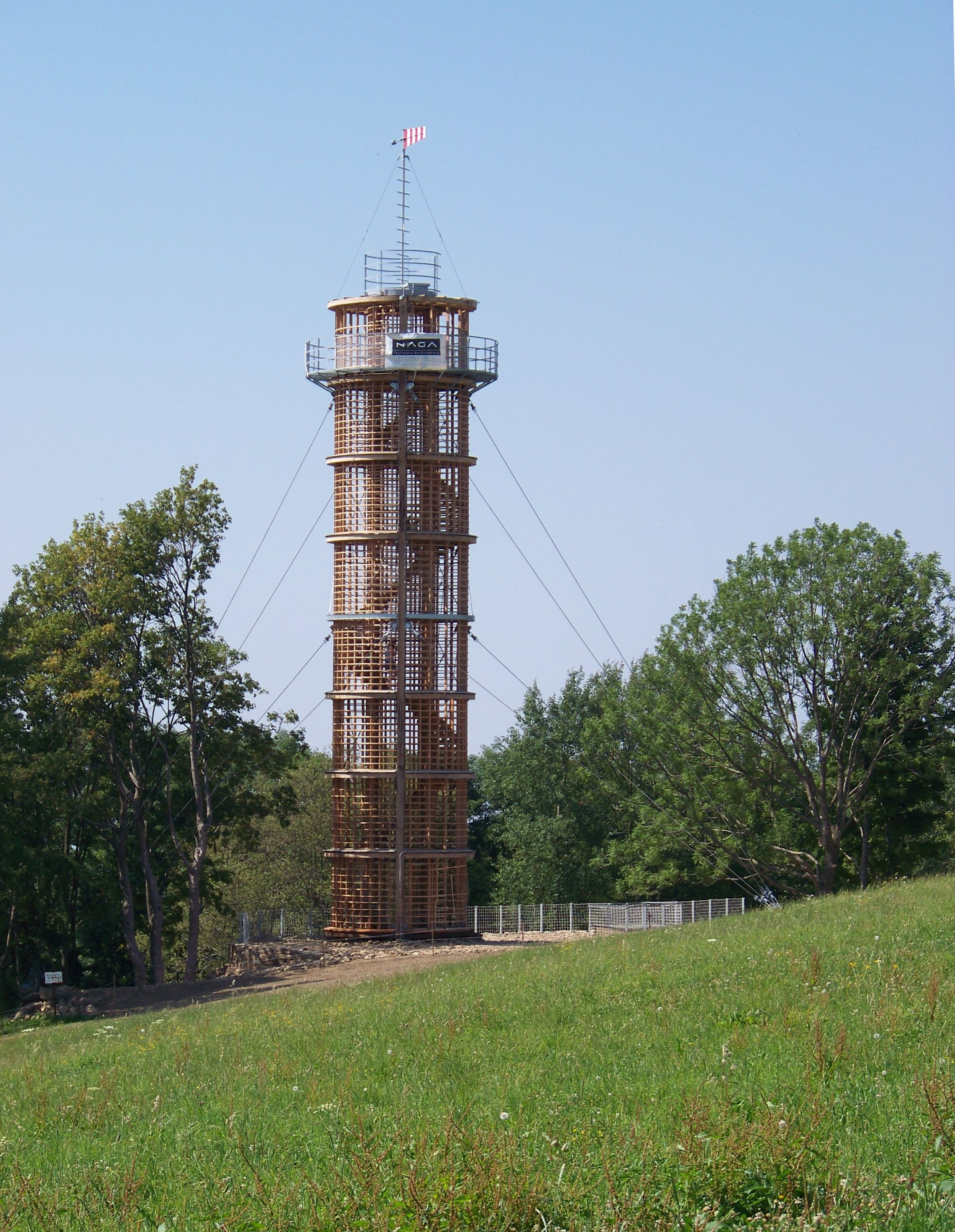 Kořenov-Příchovice, Jablonec nad Nisou District, Liberec Region, the Czech Republic. Observation tower. - OpenStreetMap(Info)